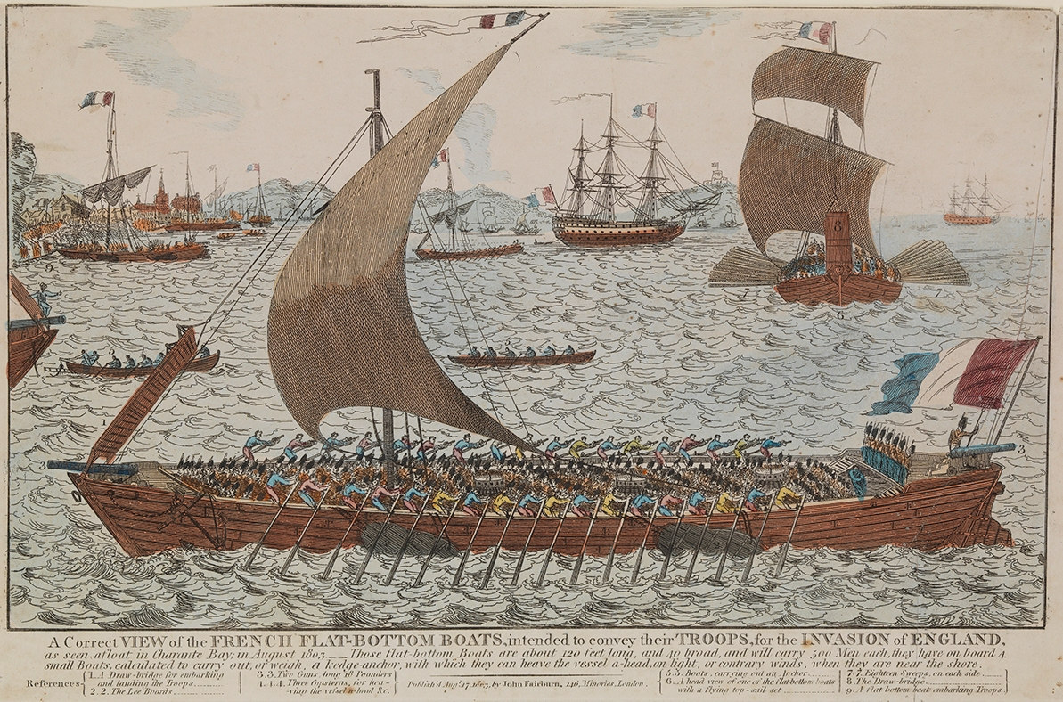 Vue d'artiste anglaise des barques à fond plat prévues dans le plan de débarquement en Angleterre en 1803. Dessin en partie imaginaire car sans doute objectif de propagande (taille plus importante qu'en réalité).